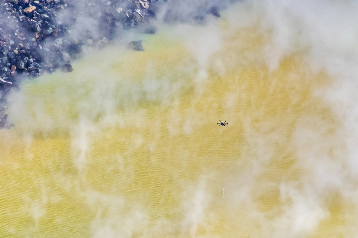 Drone sampling water in Halemaʻumaʻu Crater Lake, October 26th. 2019